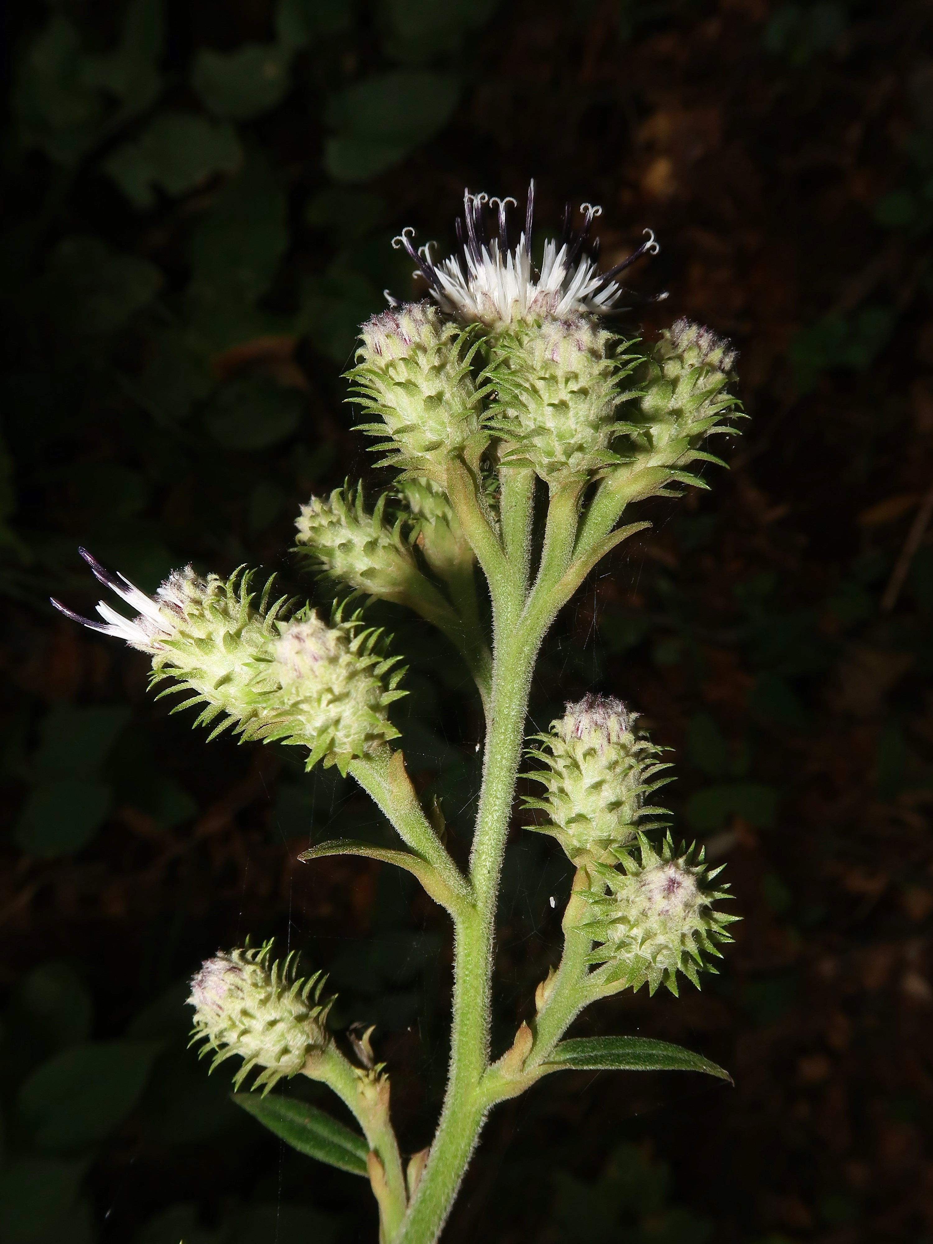 Saussurea shonaiensis, Tsuruoka city, Yamagata pref., Japan